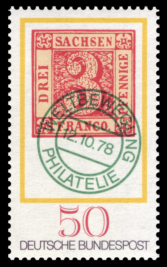 International Stamp Day Graphic designer: Herbert Stelzer Ausgabepreis: 50 Pfennig First Day of Issue / Erstausgabetag: 12. Oktober 1978 Michel-Katalog-Nr: 981